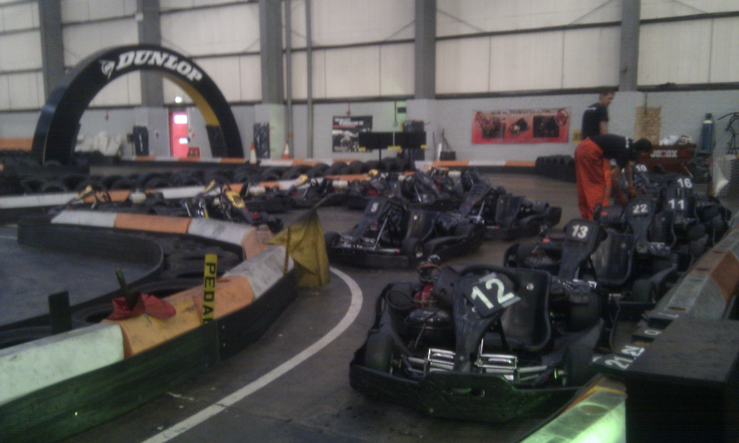 Karting at F1 Karting at Colnbrook, near Heathrow airport on Sep 25, 2010.